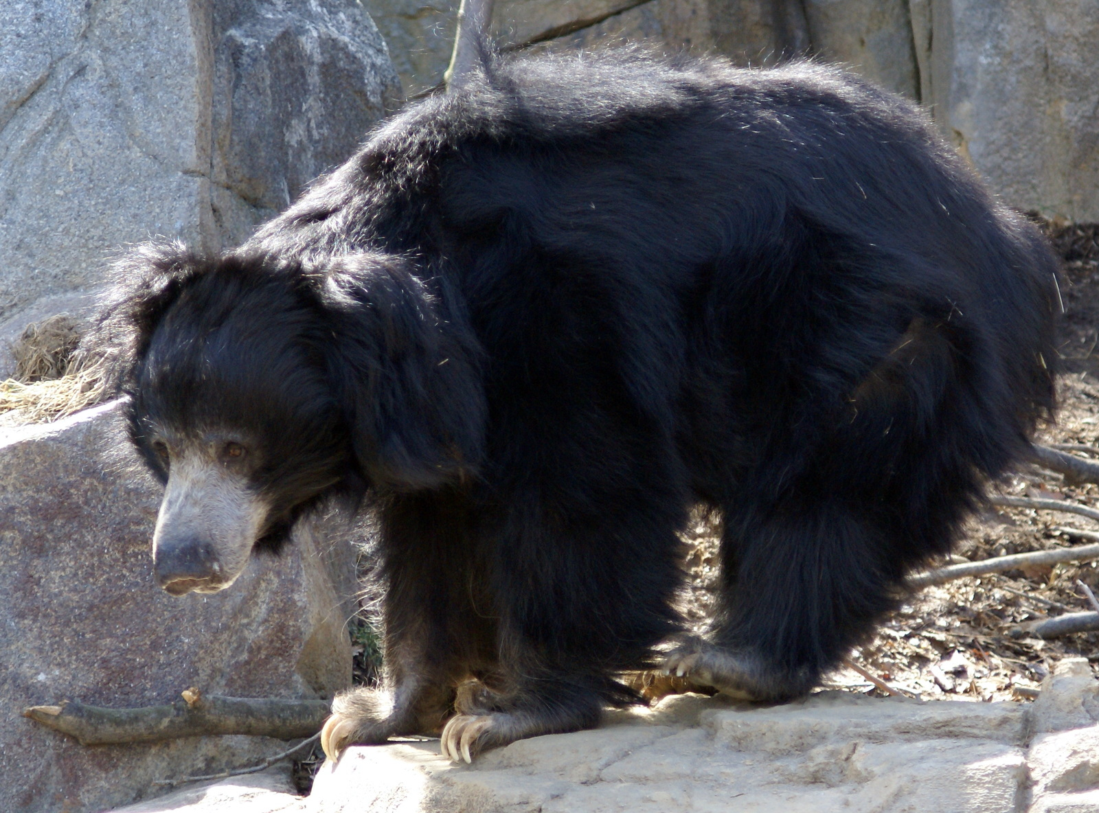 Sloth Bear in the Smithsonian National Zoological Park in Washington, D.C.